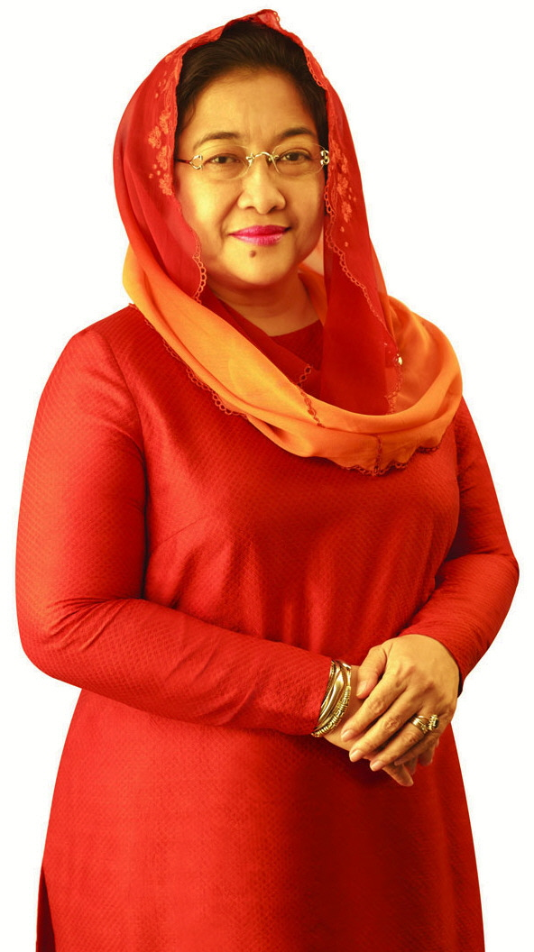 Megawati Sukarnoputri in a hijab